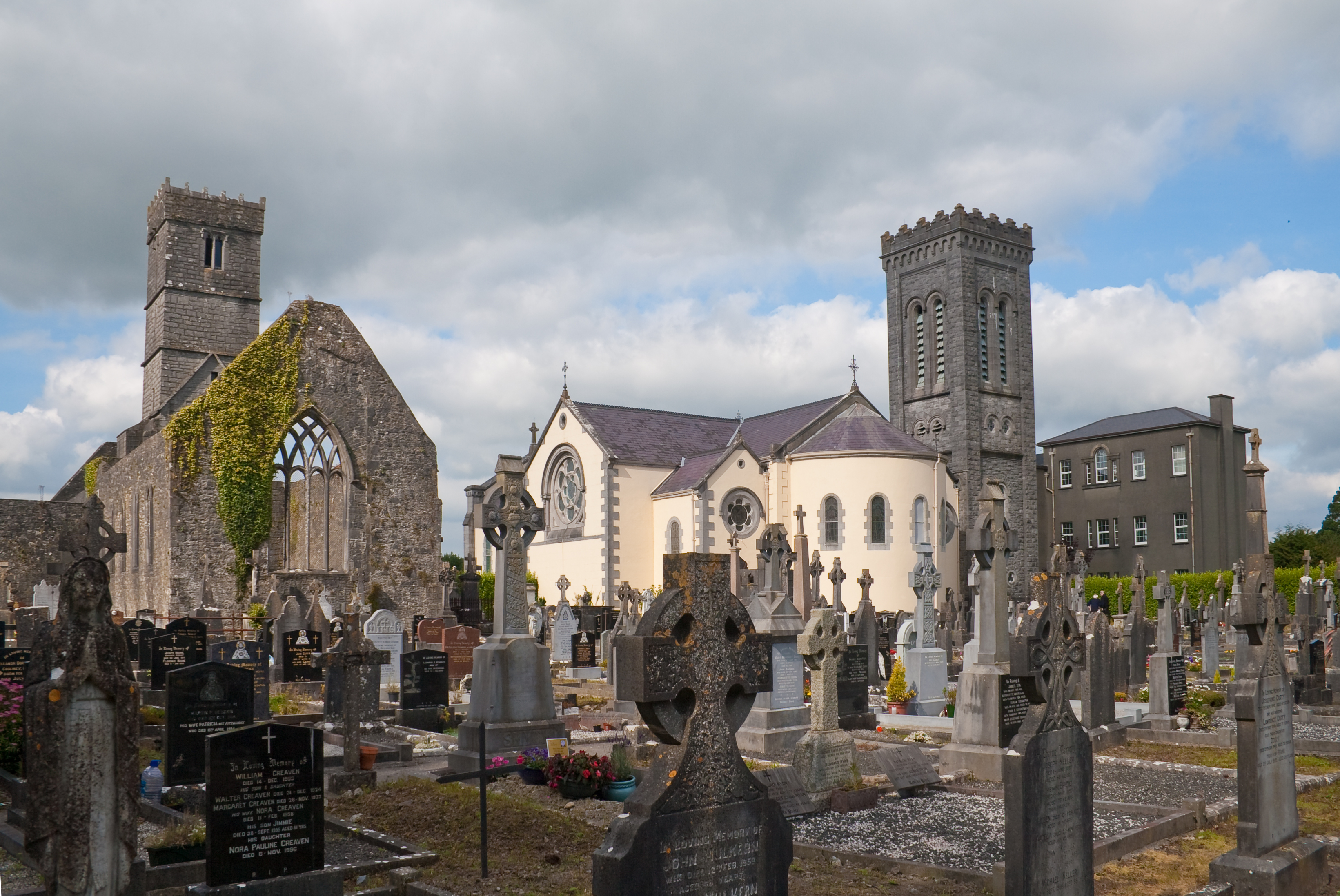 Loughrea Priory, County Galway, Ireland Old and new priory.